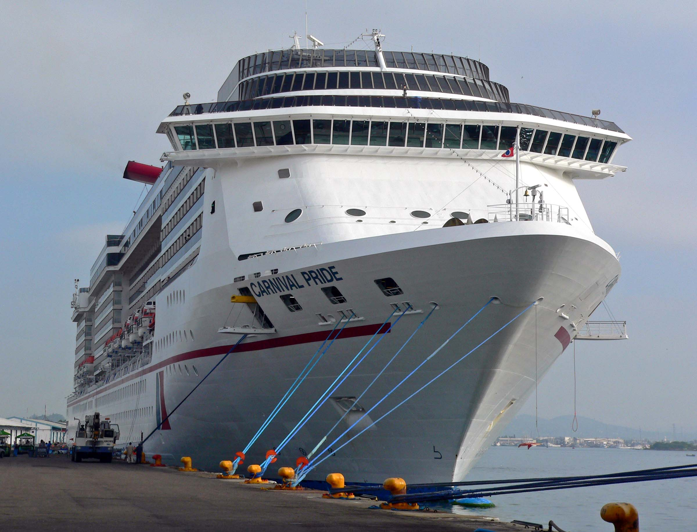 Photo of cruise ship Carnival Pride at Mazatlan